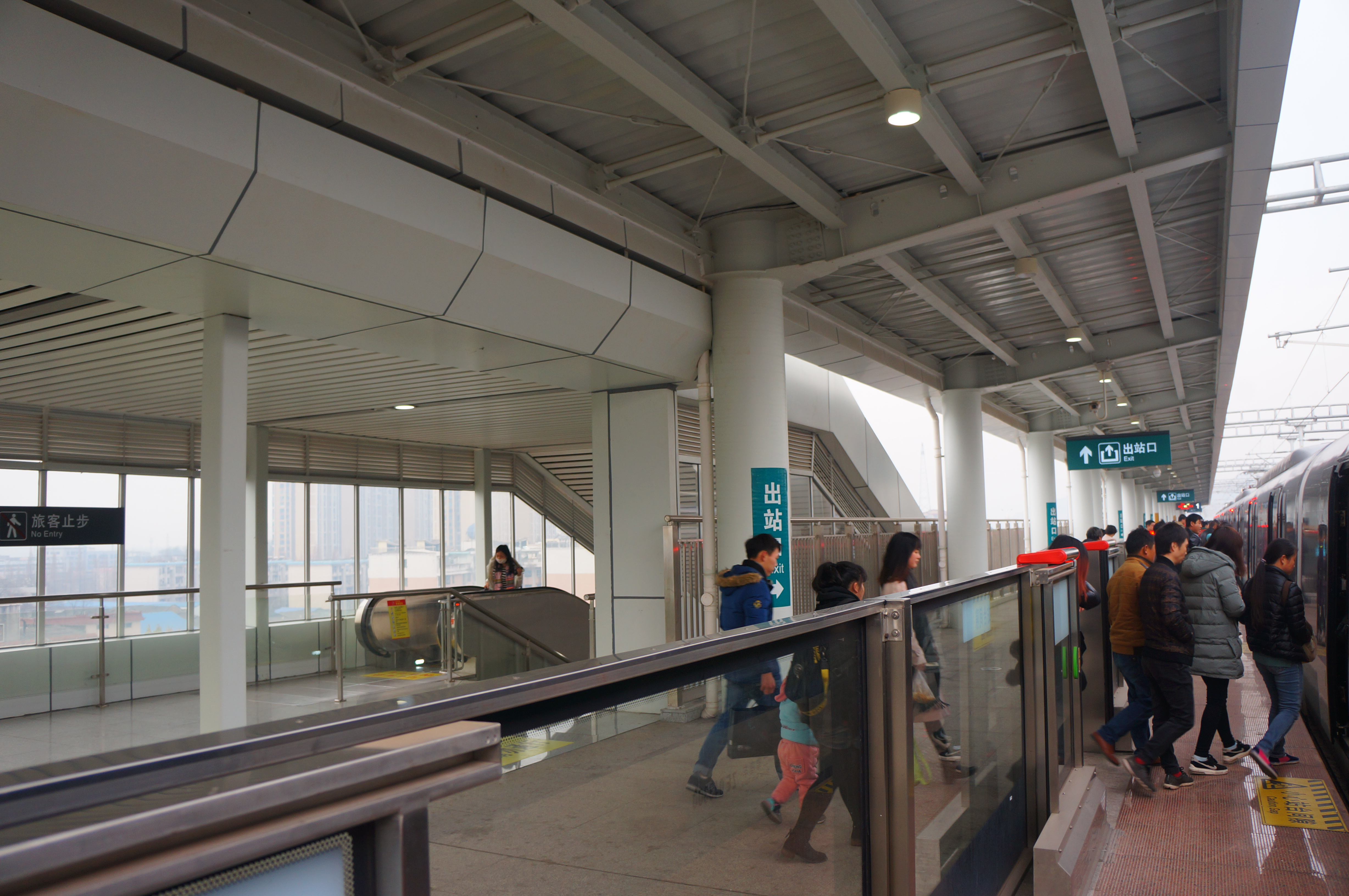 201712 Platform 1 of Tianxindong Station, a huge amount of passengers flow at this station.